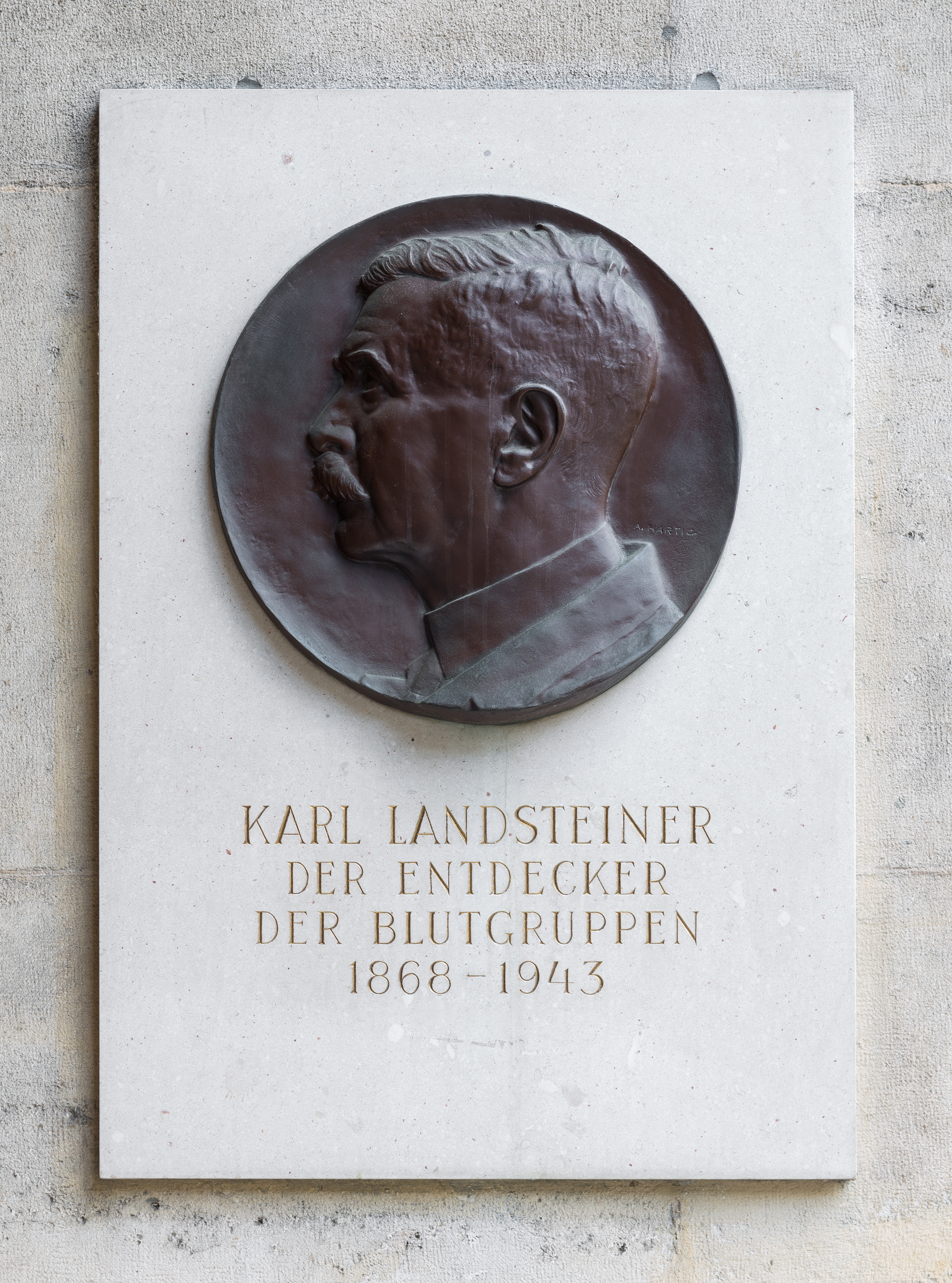 Karl Landsteiner (1868-1943), basrelief (bronce) in the Arkadenhof of the University of Vienna, (Maisel# 73). Artist: Arnold Hartig (1878-1972), unveiled 1961